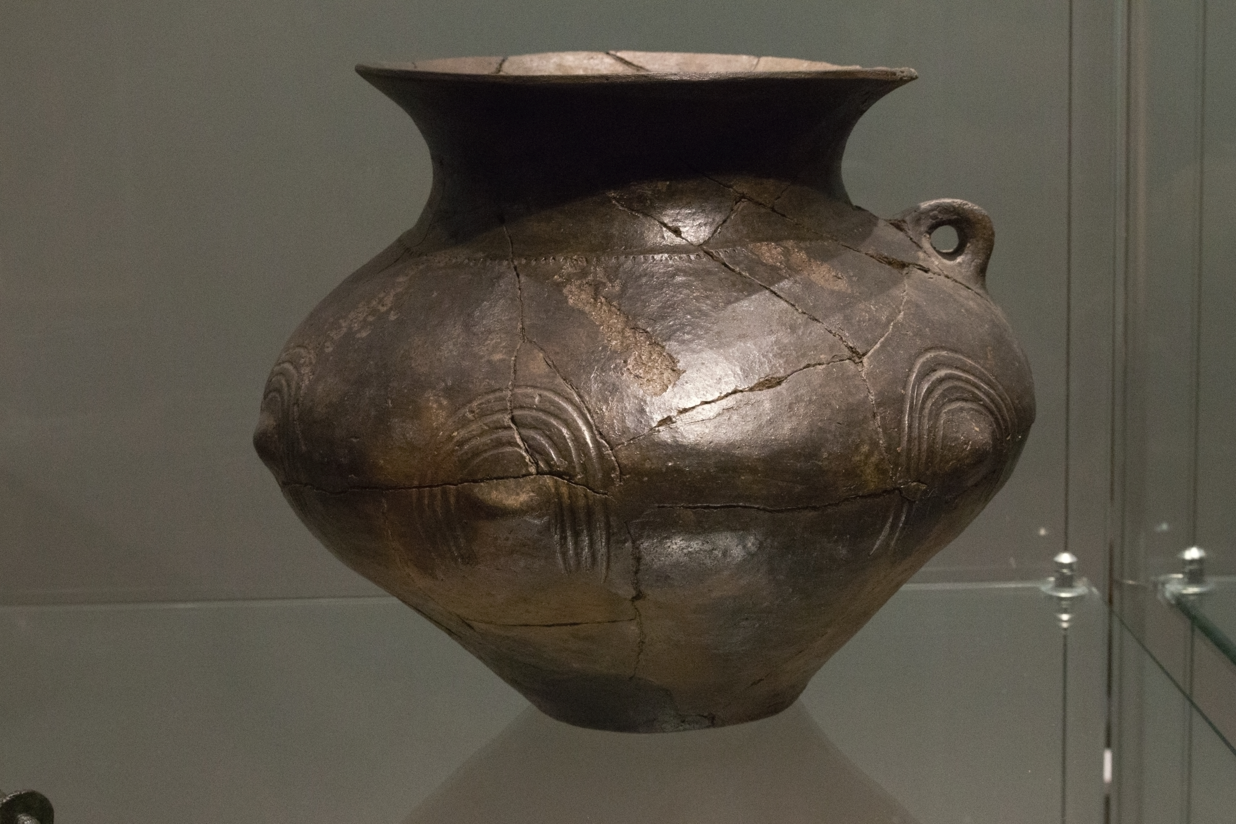 Richly decorated pottery vessel. Middle Bronze Age, tumulus culture, 1650-1250 BC. Museum of Western Bohemia in Pilsen.